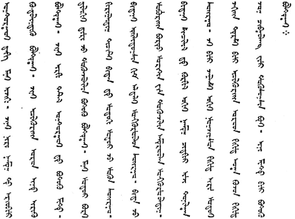 Sample of Kalmyk AKA oirat in clear script.